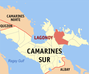 Map of Camarines Sur showing the location of Lagonoy